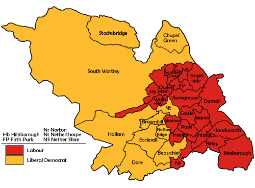 Ward map of Sheffield Council with political colouring for the 2002 election.